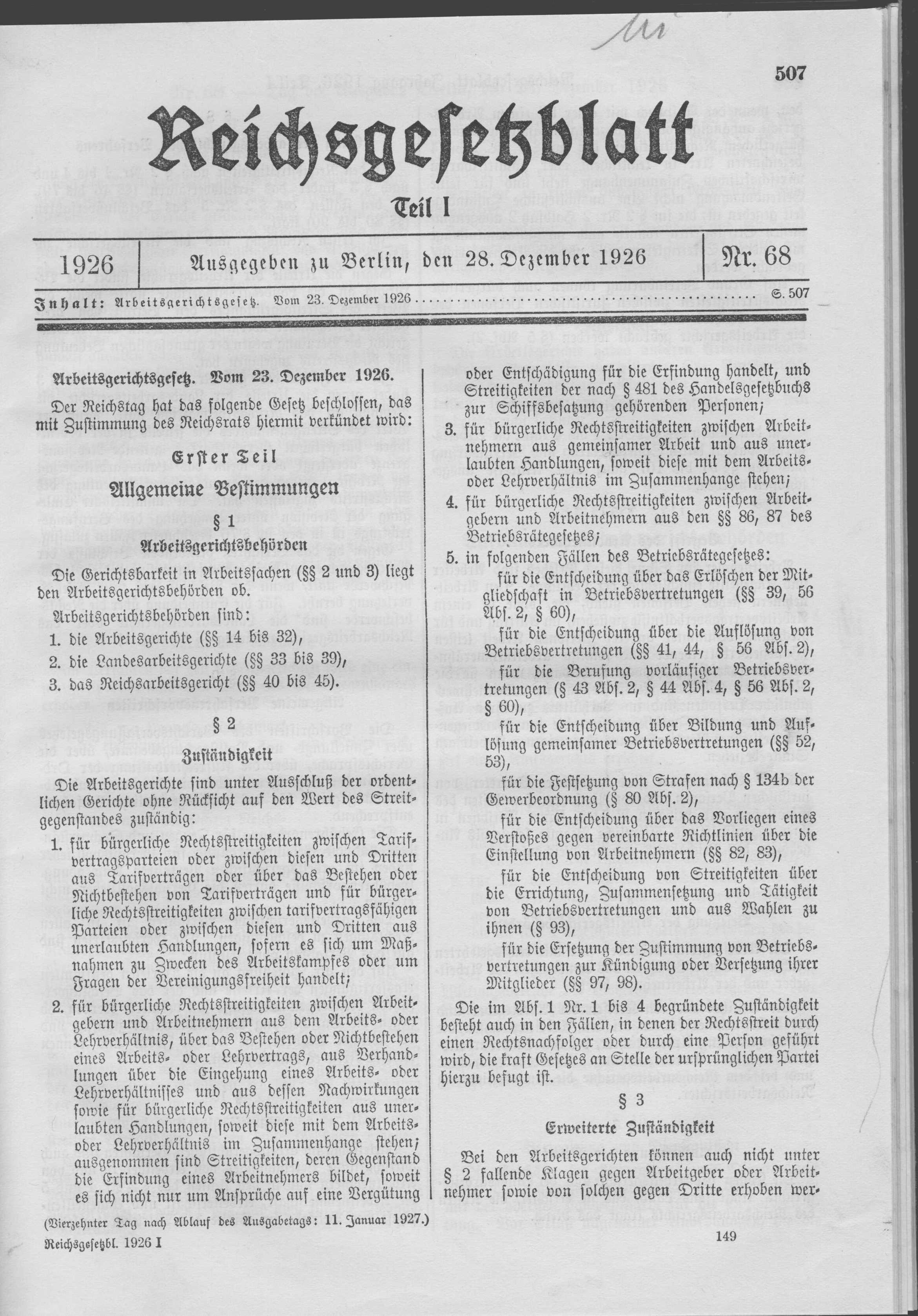 Scan from the Imperial Law Gazette of Germany, 1926, part 1